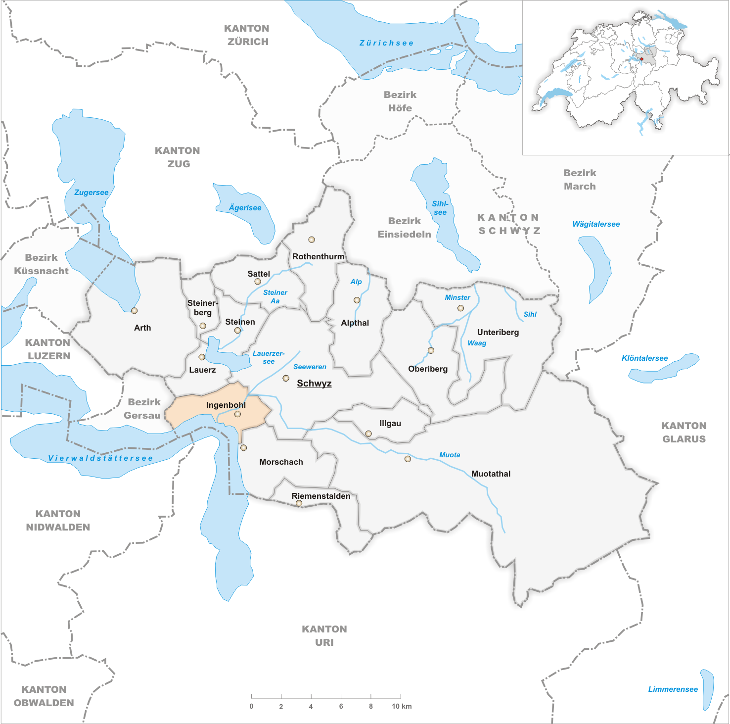 Municipality Ingenbohl